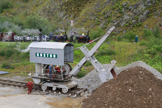 Threlkeld Quarry & Mining Museum - train and navvy. Visiting quarry Hunslets Hugh Napier and Sybil Mary hustle their train past the Ruston steam Navvy 'Hooley'. The crew of the navvy are trying to fix the slipping clutch problem. Notice the various lineside photographers.